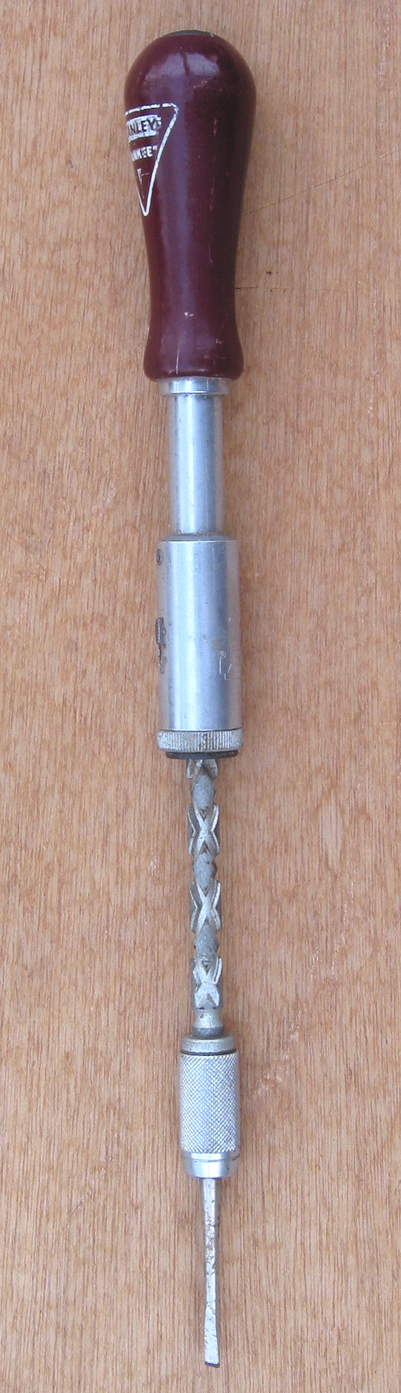 special screw driver